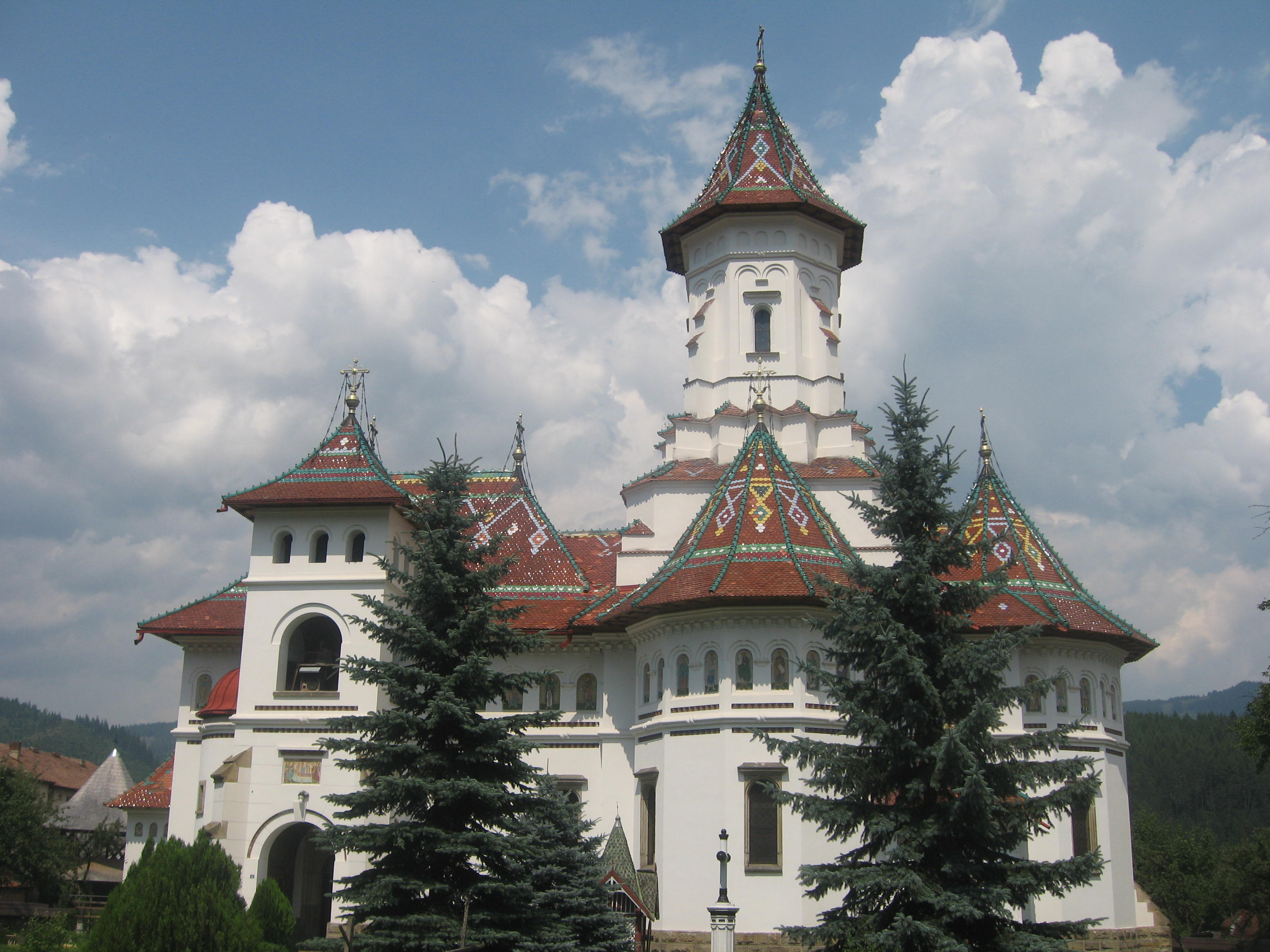 The Assumption Church in Câmpulung Moldovenesc, Romania